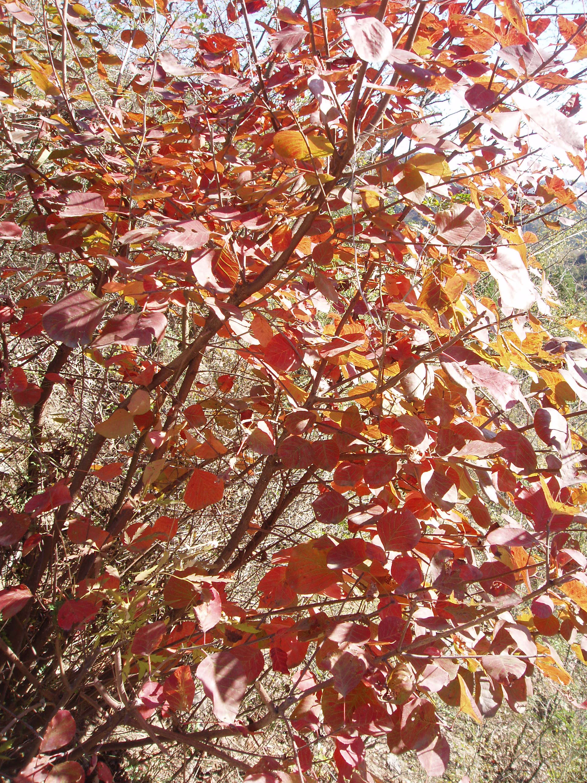 Common Smoketree (Cotinus coggygria Scop.) in autumn.